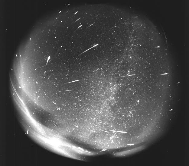 156 bolides were detected on a single (pointed) photographic plate of the all sky fish-eye photographic camera during the Leonid meteor shower in 1998 at Modra observatory. The exposure time was 4 hours.